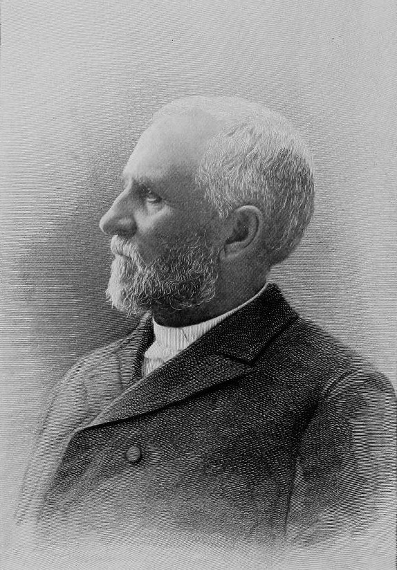 Portrait photo of John Livingstone Nevius